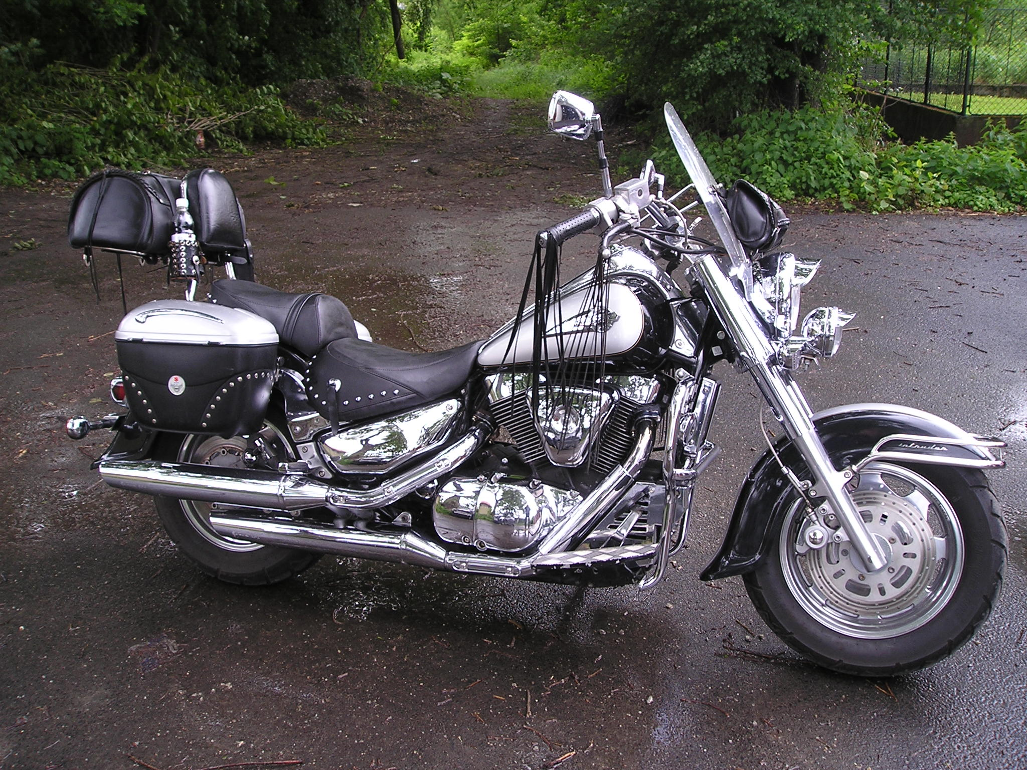 Suzuki Intruder VL 1500 LC